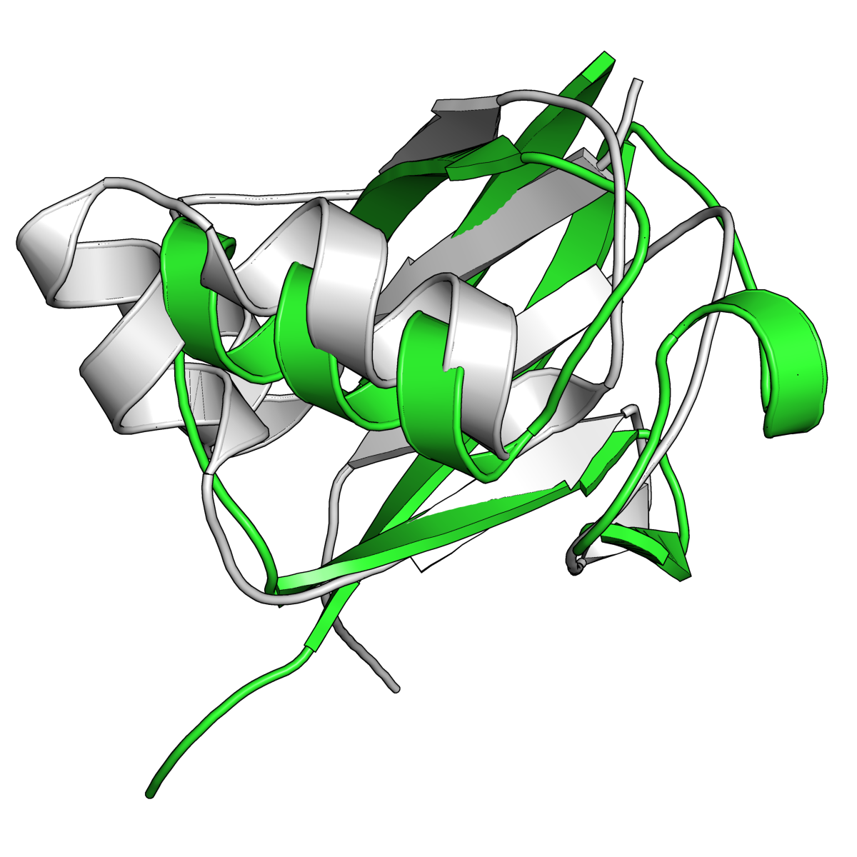 Superposition of ubiquitin (PDB: 1UBQ​, green​) and bacterial sulfur transfer protein MoaD (PDB: 1FM0​ chain D, light gray​) illustrating their structural similarity. Rendered using PyMOL.